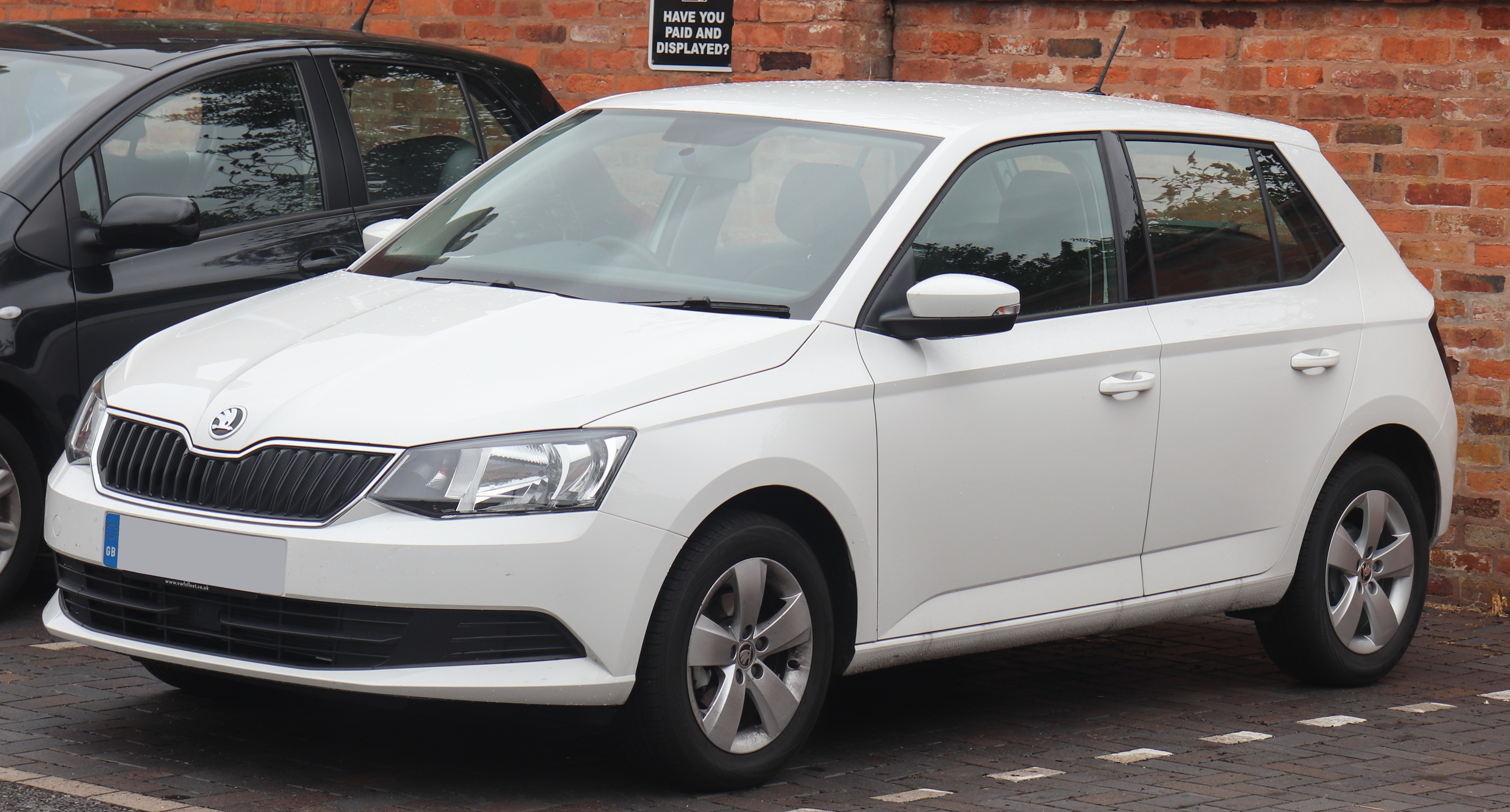 2018 Skoda Fabia SE MPi 1.0 Taken in Warwick